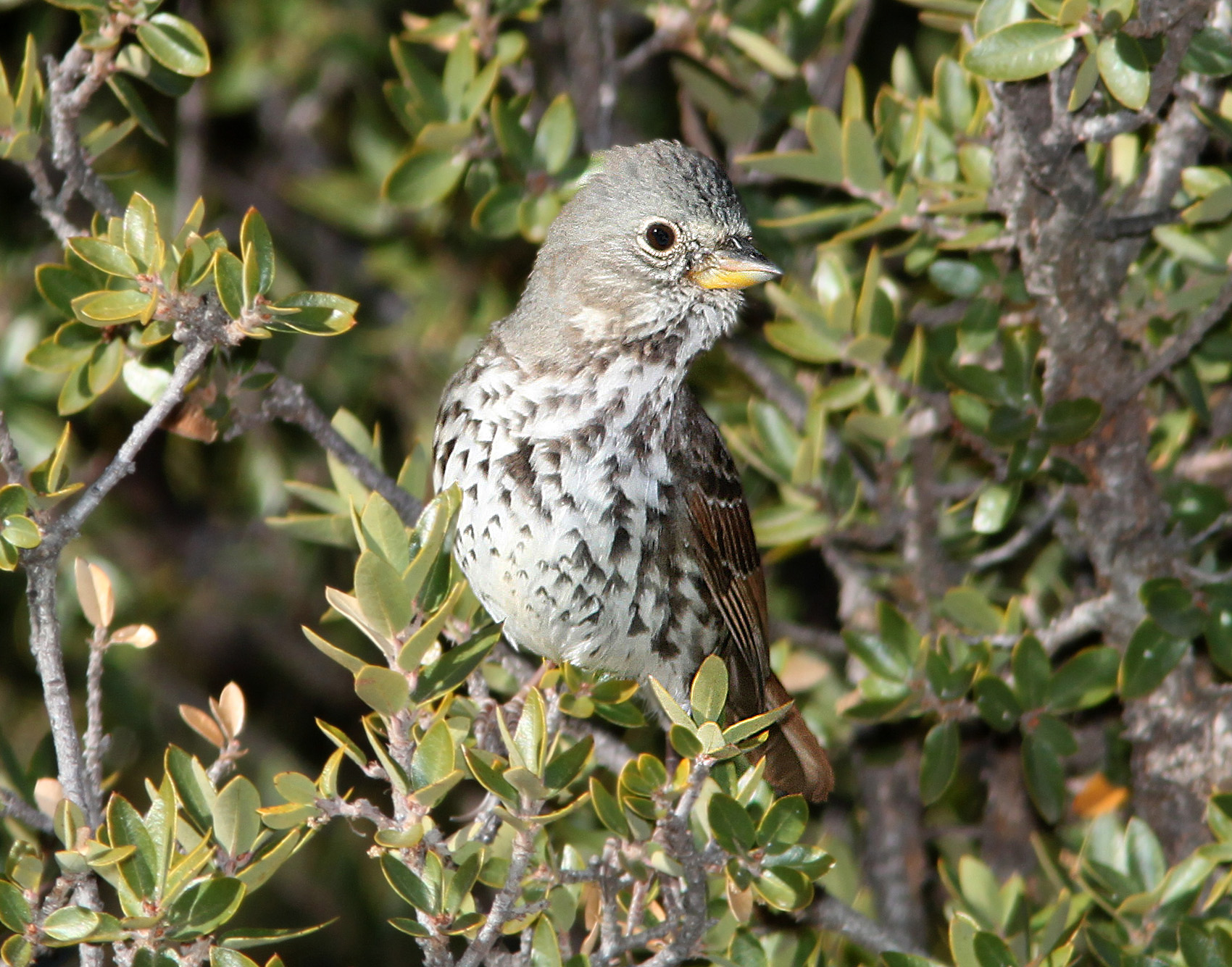 Slate-colored Fox Sparrow Passerella schistacea, Flux Canyon Road, Patagonia, Arizona, USA.